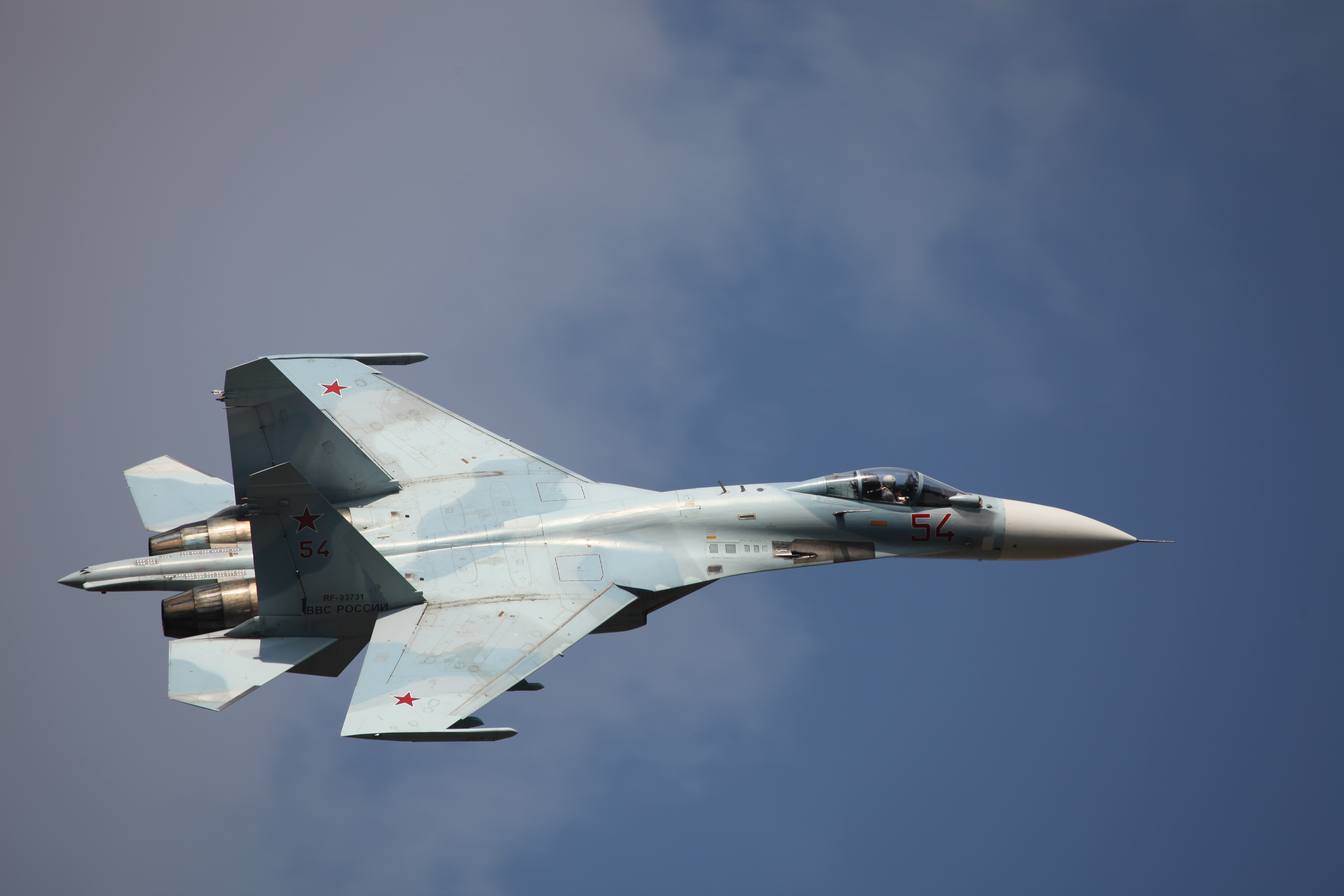 Aircraft at the Celebration of the 100th anniversary of Russian Air Force.